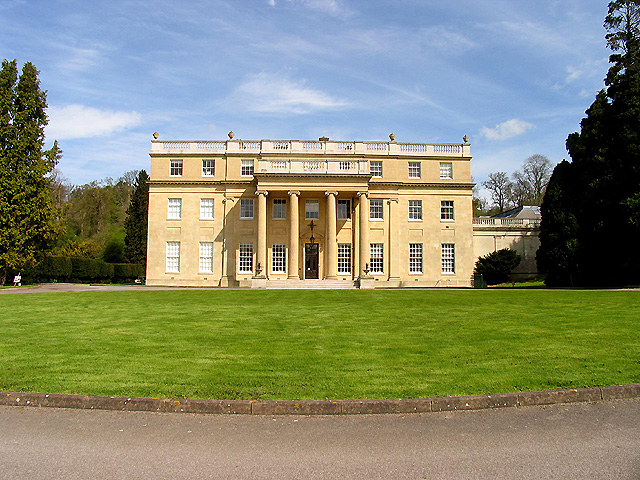 Benham Valence: near Speen and Newbury. This location of this stately building is now an office park. The main building is situated in the north western section of the grid square. The various parking areas have been cleverly disguised in wooded areas.